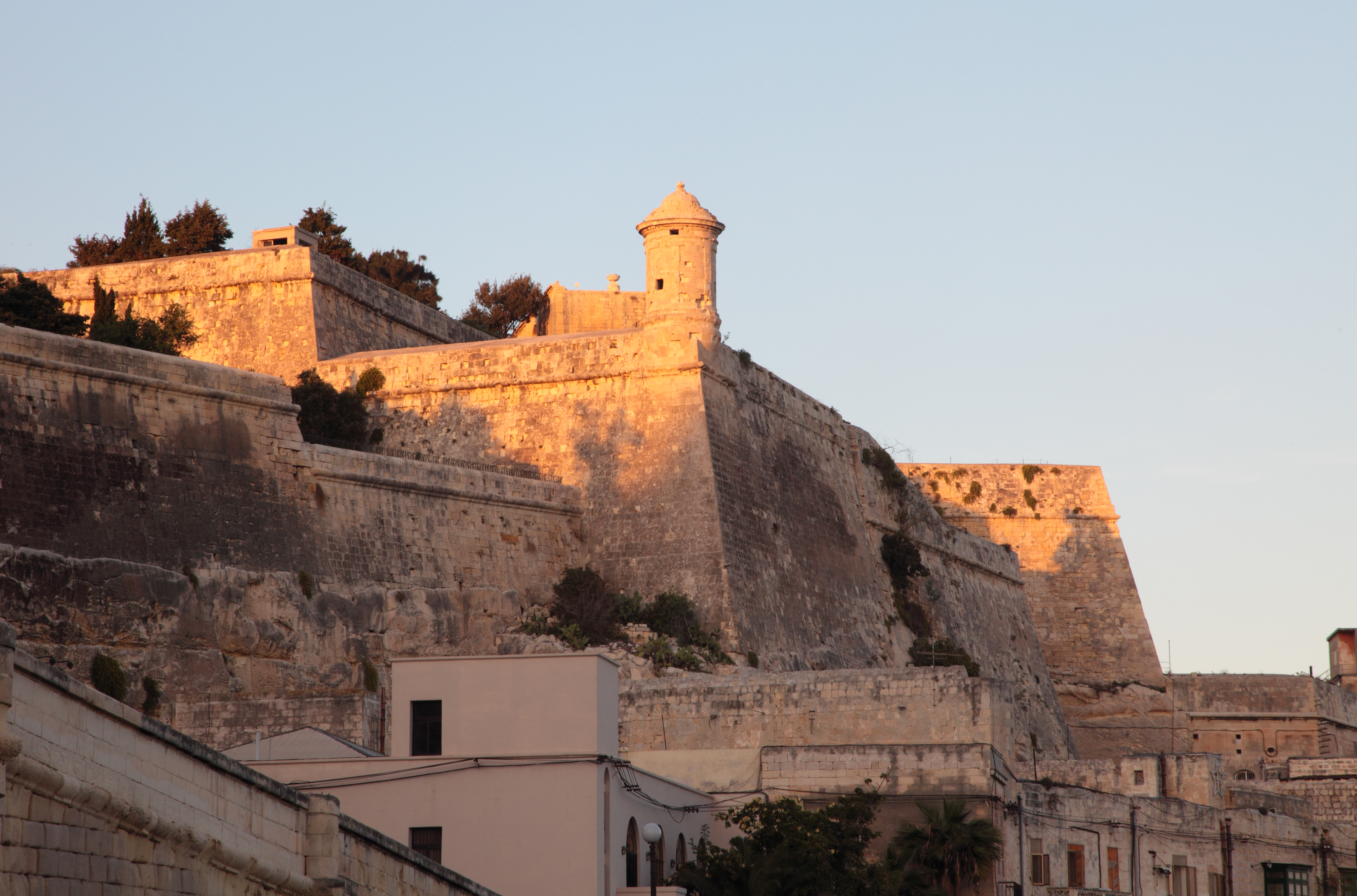 Malta, Valletta, watch tower at sunset